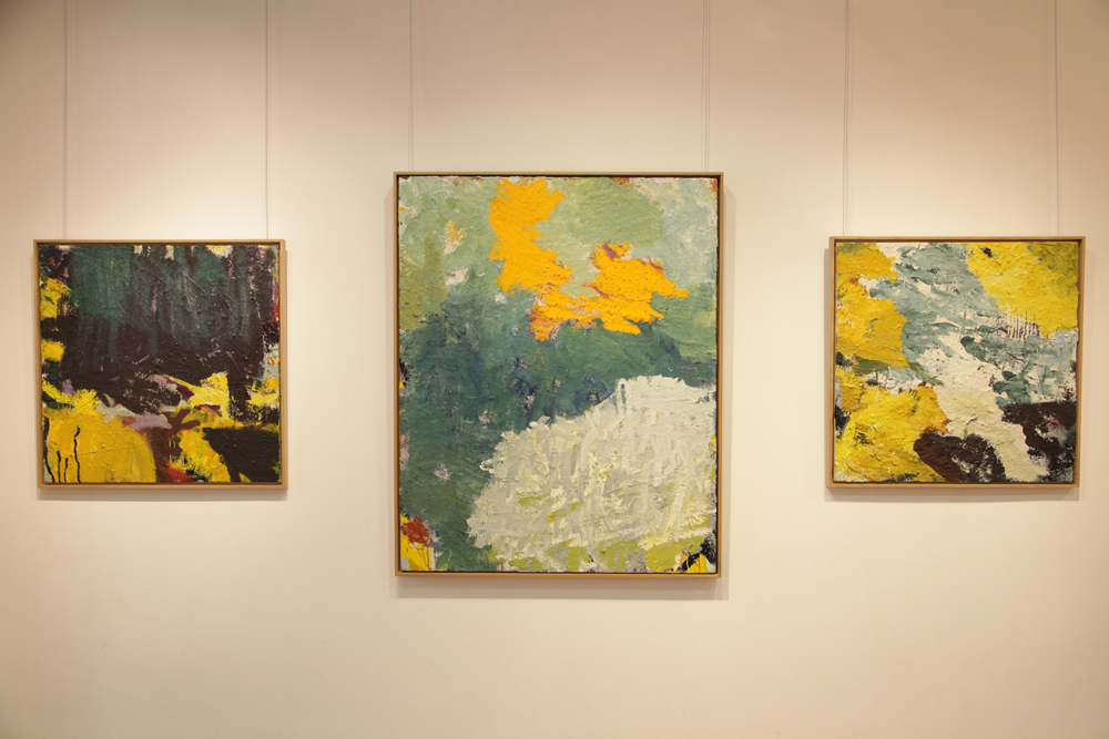 Exhibition Installation images from the 2014 solo exhibition of Anthony White at Le Pavé D'Orsay.Le Pavé D’Orsay is proud to present the work of Australian painter Anthony White in his first Parisian solo show. Having gained a reputation for producing materially dynamic abstract paintings in Australia,White continues to produce innovative process-based paintings from his Paris studio. Le Pave D’Orsay presents a survey of the artist’s practice from the years 2008-2014, including collages and two distinct suites of abstract paintings. From the period of 2008-2010 White received multiple travelling scholarships. The experience of artist residencies in Paris, Vermont and Leipzig provided exposure to new cultures and interaction with a diverse range of international artists, confirming his affinity with art brut and modernism,and researching an aesthetic associated with tribal culture and mark making. White’s practice is concerned with how the role of gesture relates to art objects, and how they operate as functional items in indigenous societies and how this differs from art objects of the west.